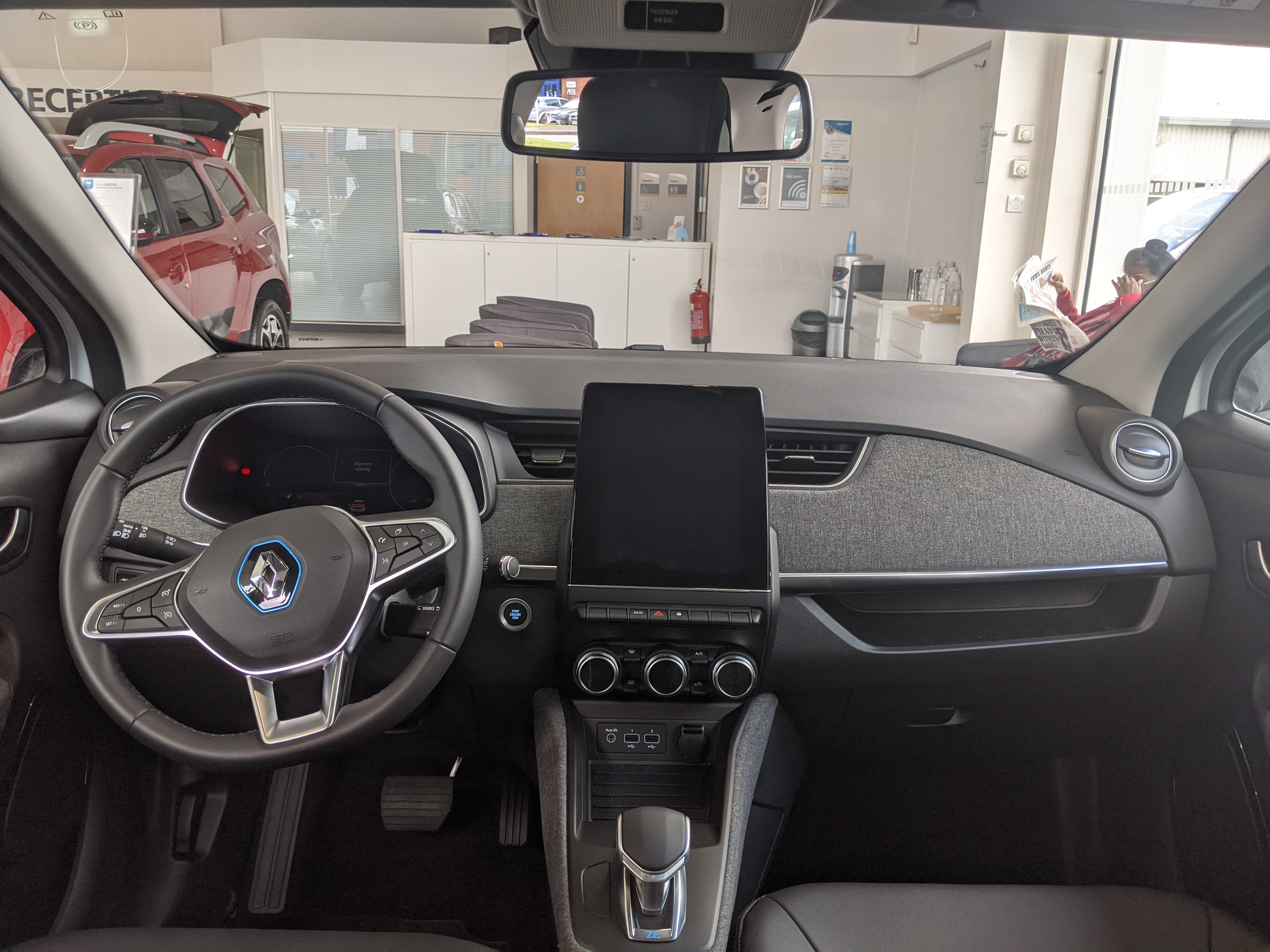 2020 Renault Zoe Intens R135 Z.E. 50 Interior Taken in Leamington Spa